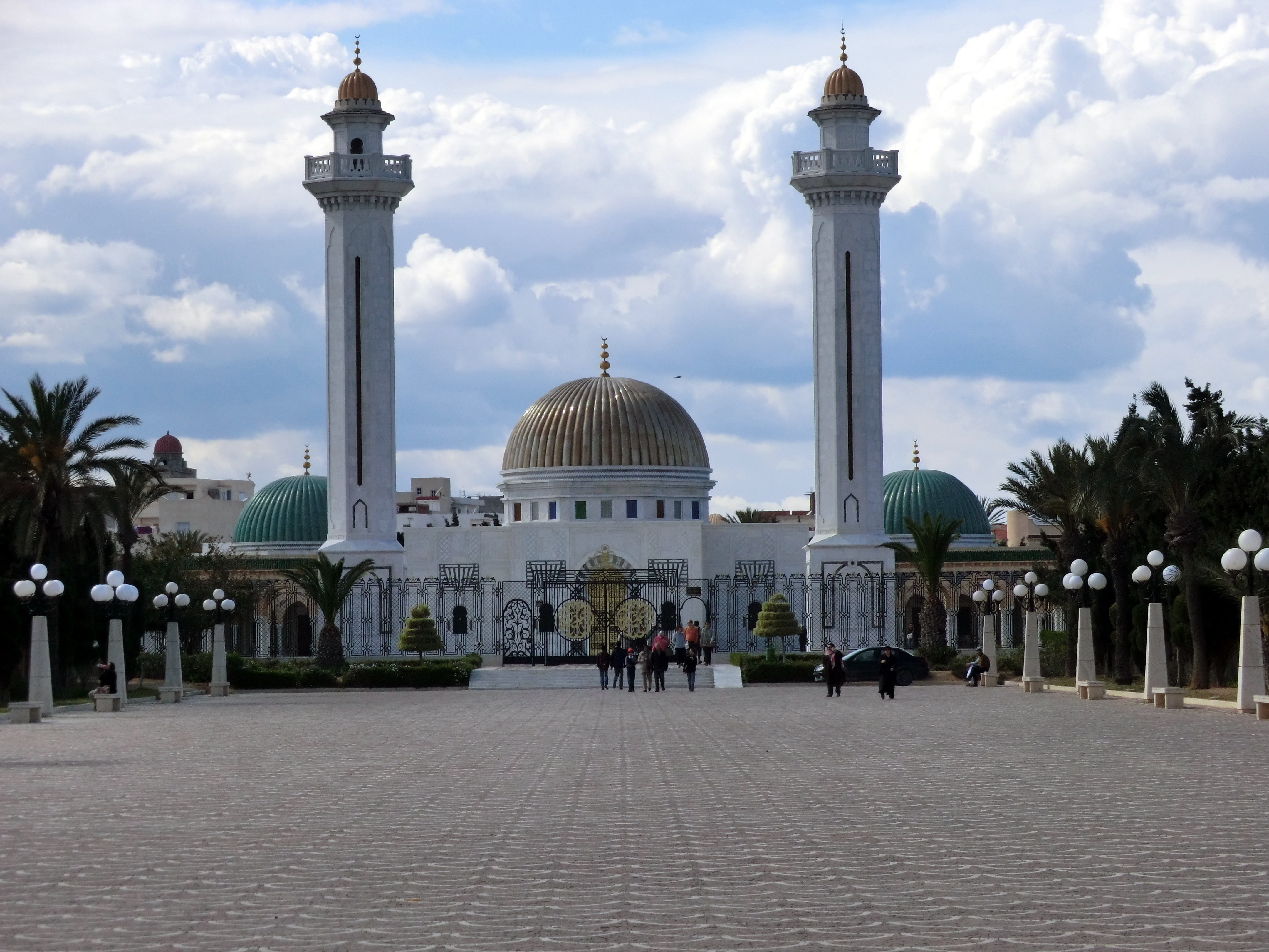 Bourguiba Mausoleum.